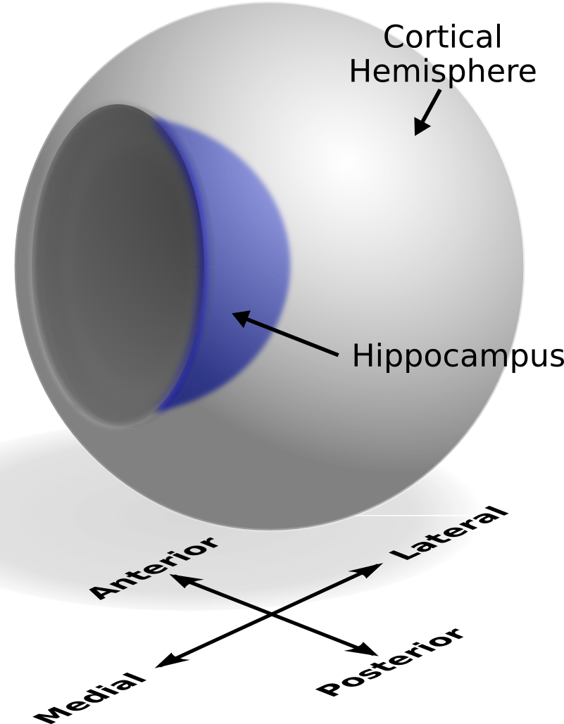 I made this image myself, using Inkscape. It is not derived from any existing image. It shows. What use is this POS to anyone?